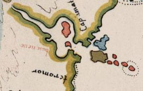 The area claimed to be Botany Bay (marked "Baia Neve" - faint red upsidedown text), cropped from the Vallard map as described in [1]